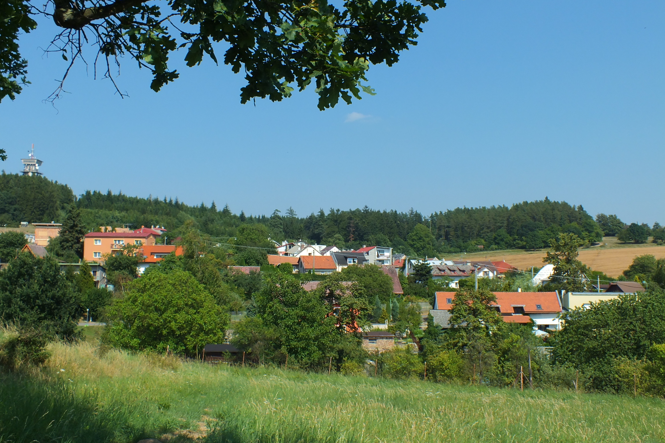 Village Radíkov, part of the city of Olomouc, the Czech Republic.